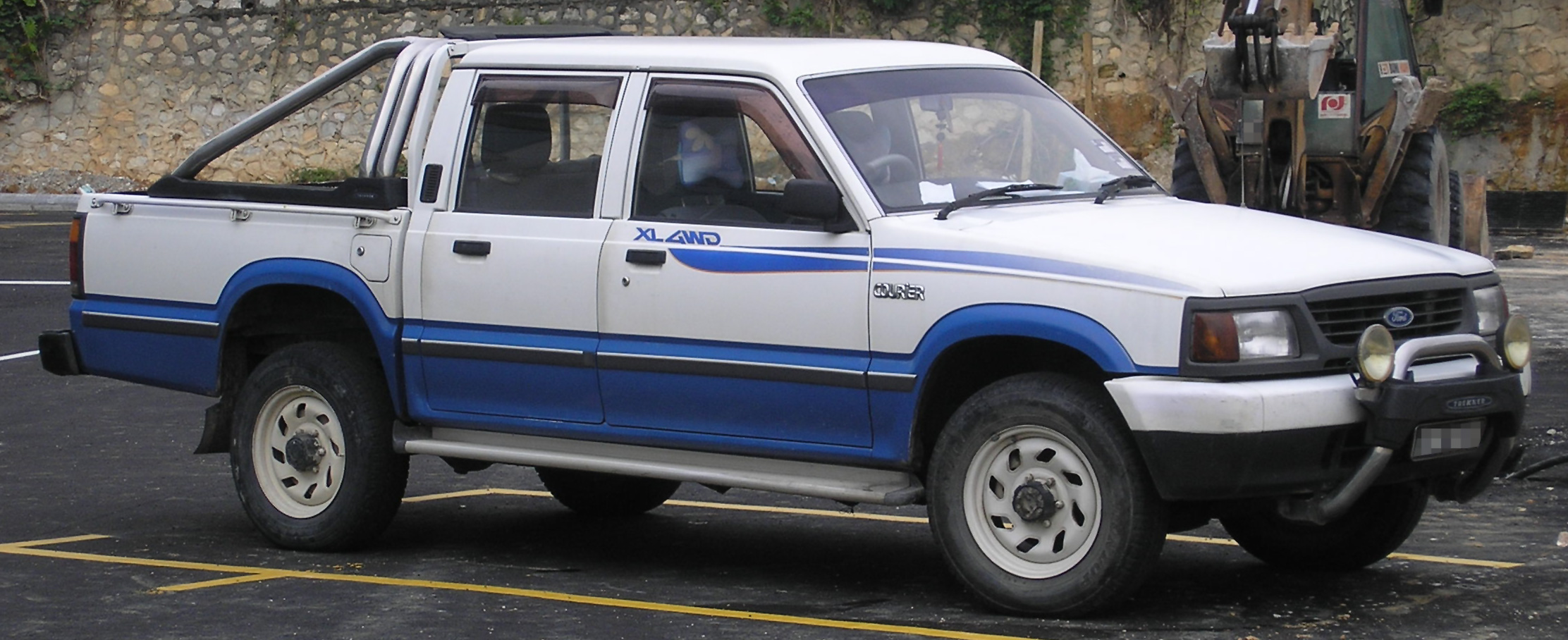 Front quarter view of a first generation Ford Courier (Southeast Asian), in Serdang, Selangor, Malaysia.